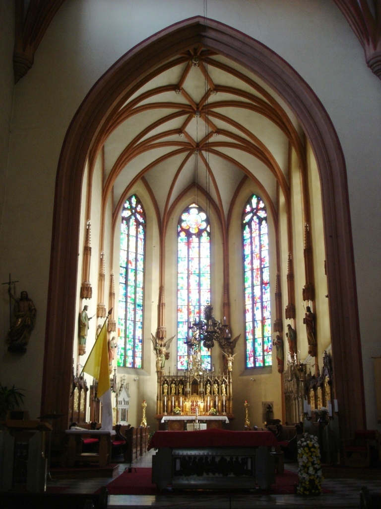 Gothic arch, Cathedral of Maribor, Slovenia